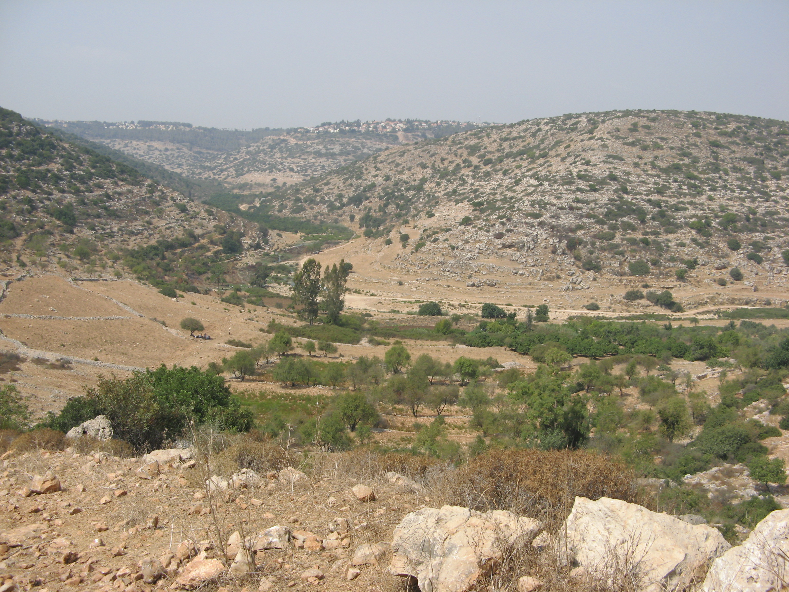 Kana wadi near Karnei Shomron in the West Bank